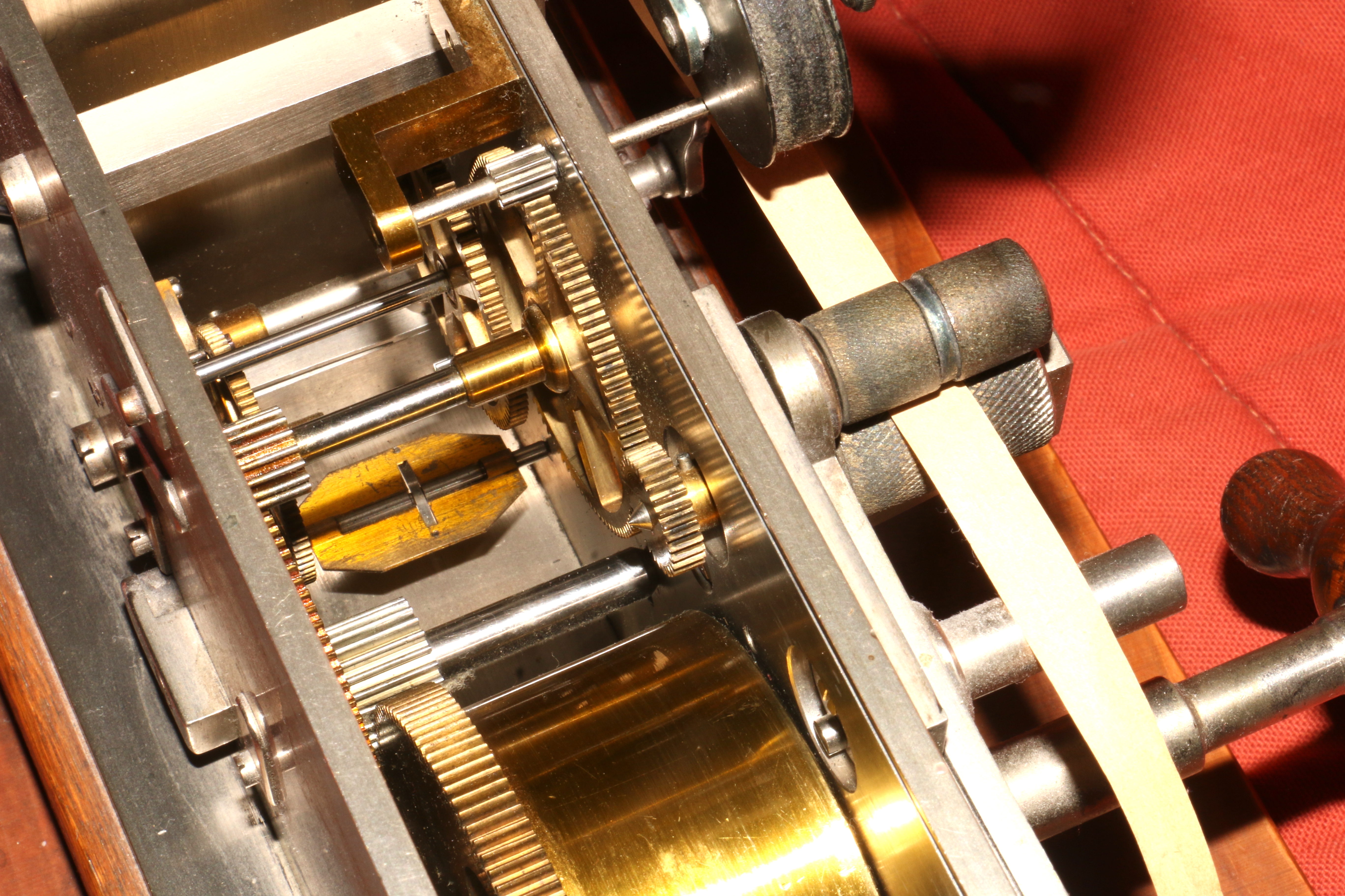 Inside an Electrical Telegraph